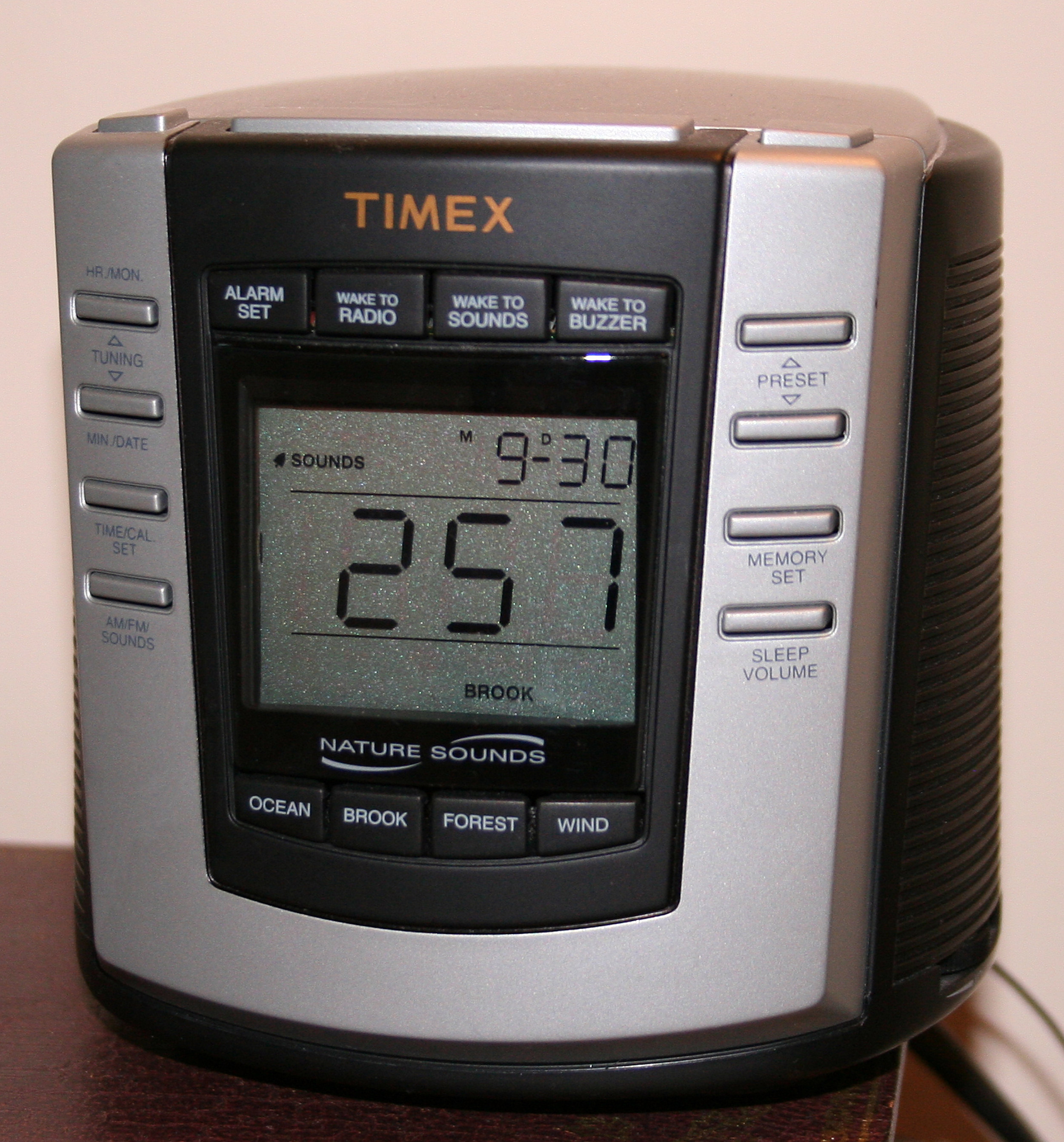 Digital clock of a premium design. This clock uses digital tuning, and offers various white noise sounds. Photo shot by Derek Jensen (Tysto), 2005-September-30